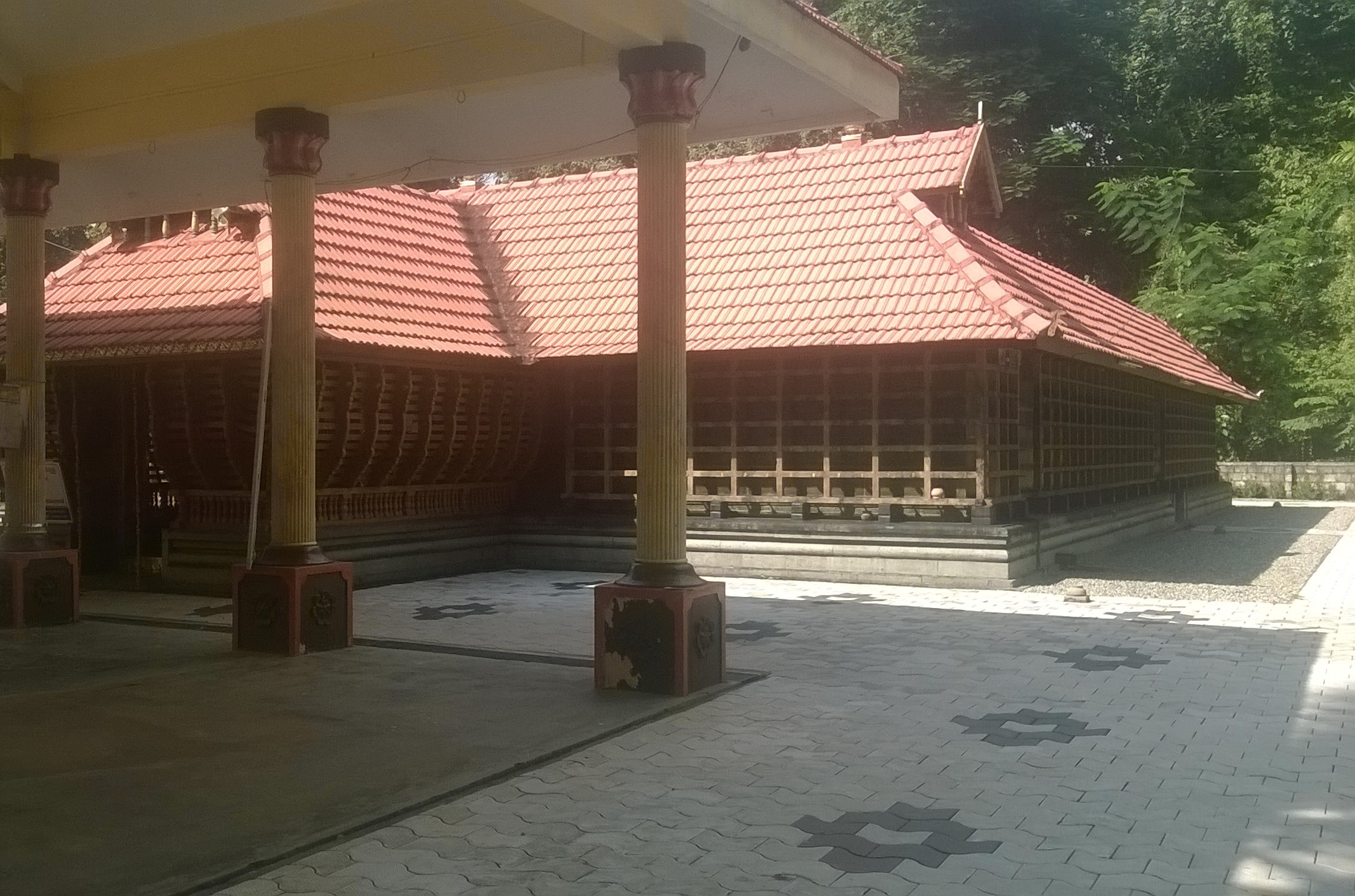 Kadakkad Sree Bhadrakali Temple Image Uploaded by Agnostos Theos